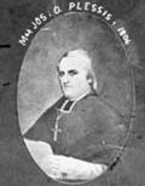 This is a crop from: This image is available from Library and Archives Canada under the reproduction reference number PA-023422 and under the MIKAN ID number 3384259This tag does not indicate the copyright status of the attached work. A normal copyright tag is still required. See Commons:Licensing for more information. Library and Archives Canada does not allow free use of its copyrighted works. See Category:Images from Library and Archives Canada. Restrictions on use/reproduction: Nil Copyright: Expired Credit: Jules-Ernest Livernois/Library and Archives Canada/PA-23422